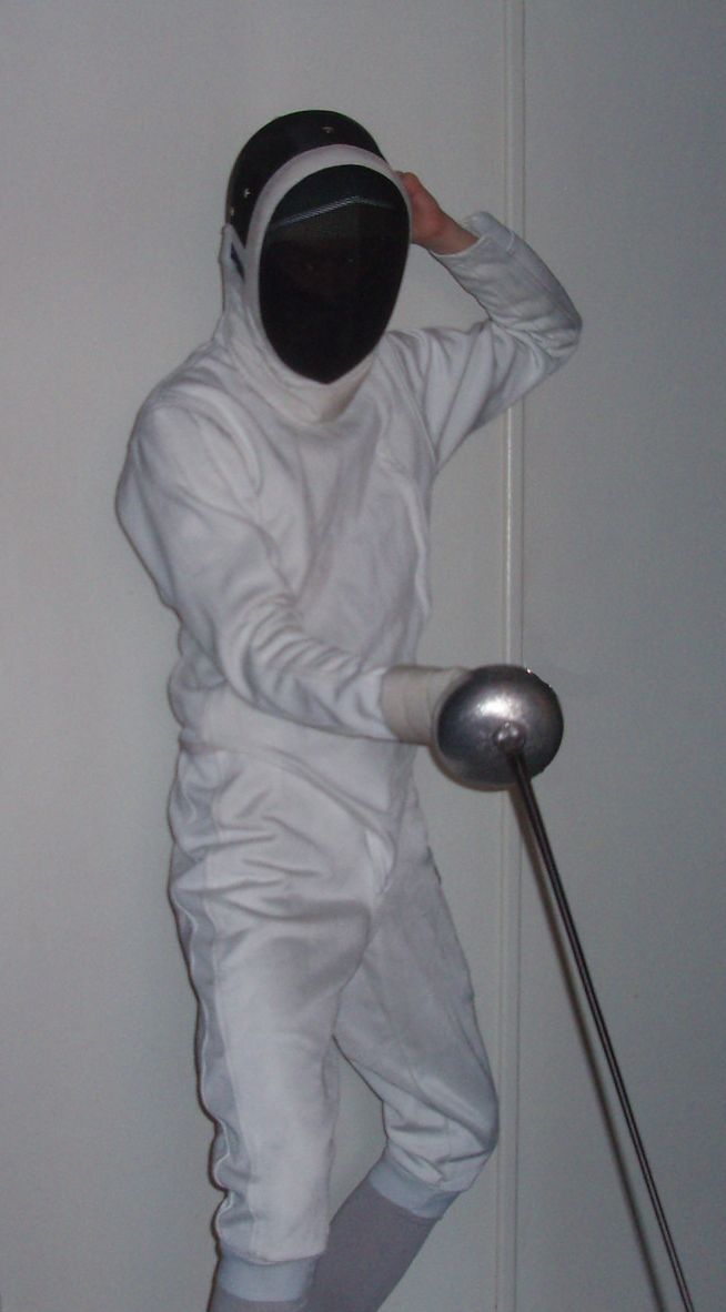 Seventh position in Fencing (Septime)